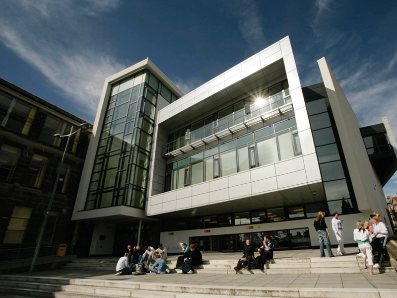 Exterior photograph of St Brycedale Campus, Kirkcaldy